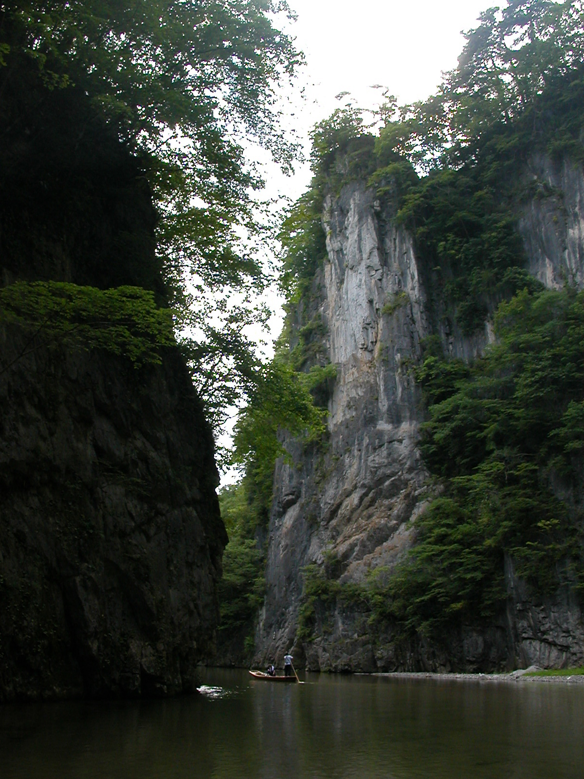 Geibikei (NB not Genbikei), Ichinoseki, Iwate, Japan